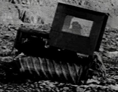 Screw Propelled Weasle Prototype